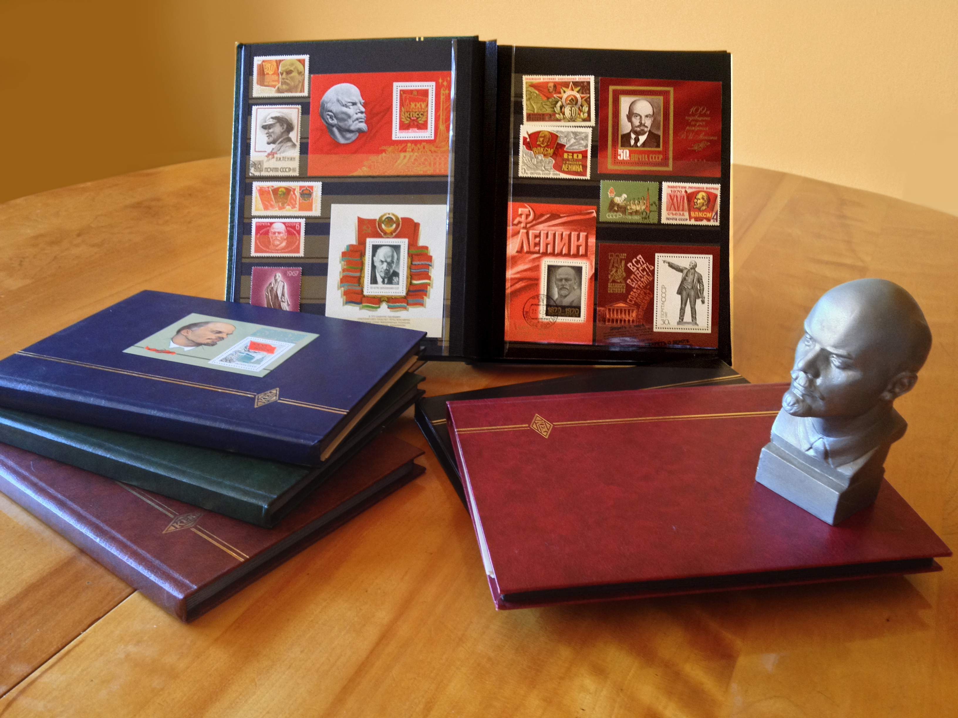 A six-volume collection of stamps from around the world featuring Vladimir Lenin. All visible stamps and miniature bust are products of the USSR government and have been released to the public domain.